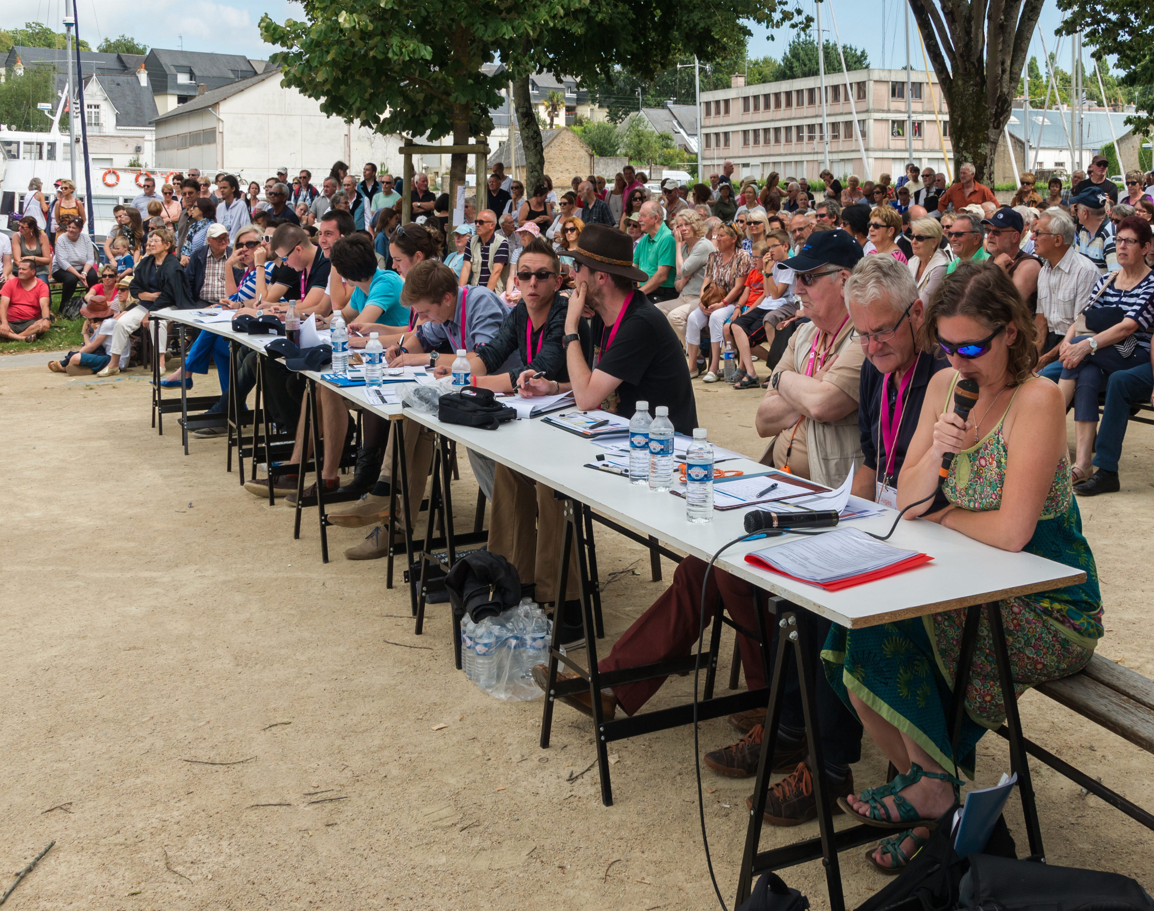 Bagadoù national championship, 4th category A, Vannes (Morbihan, France), July 2014. The table of the judges.